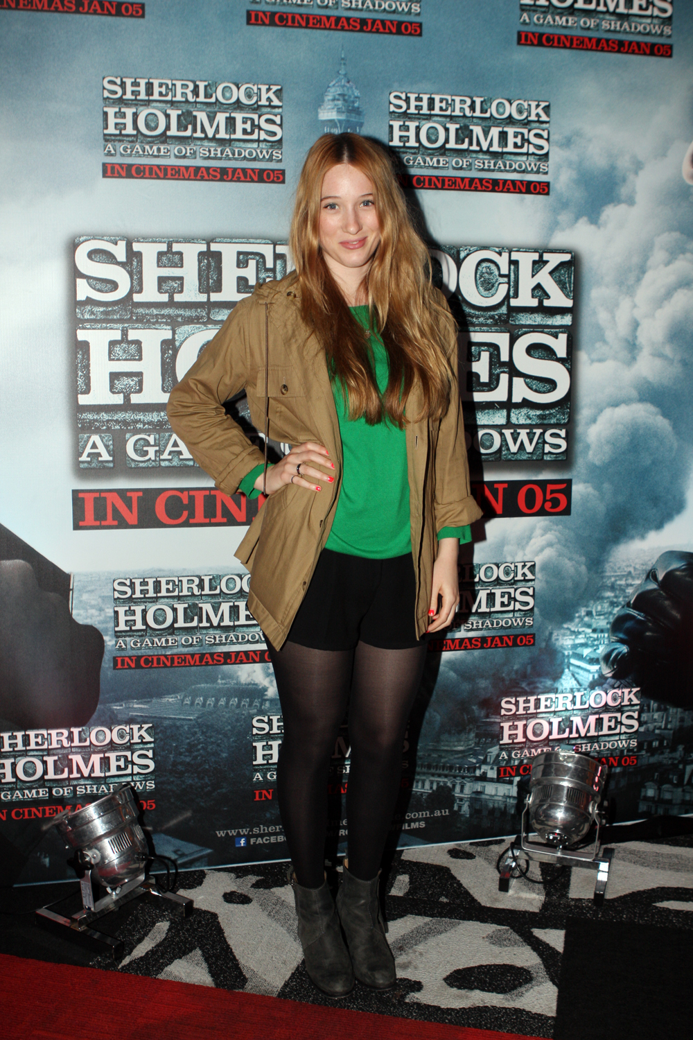 The Sydney premiere of this summer’s blockbuster SHERLOCK HOLMES: A GAME OF SHADOWS, took place at Event Cinemas, Bondi Junction, in Sydney's eastern suburbs earlier tonight. Guests attended a private cocktail reception in the Set Bar before the enjoying a screening of Guy Ritchie’s sequel to his 2009 blockbuster. The guests started pouring in at 6pm and the movie kicked off at 7pm. Event Cinemas at Westfield Bondi Junction once again snatched the bragging rights to a world class premiere. Guests included Kerri-Anne Kennerley, Layne Beachley, Kirk Pengilly, Sophie Lowe, Jonathon Coleman and Lizzy Lovette. The Movie Plot... Sherlock Holmes and his trusty sidekick Dr. Watson join forces to outwit and bring down their fiercest adversary, Professor Moriarty. Director: Guy Ritchie Writers: Kieran Mulroney, Michele Mulroney Actors: Robert Downey, Jr, Jude Law, Noomi Rapace, Jared Harris, Stephen Fry, Rachel McAdams, Eddie Marsan Producers: Gary Goetzman, Joel Silver Websites Sherlock Holmes 2 official website Village Roadshow Australia Event Cinemas Music News Australia